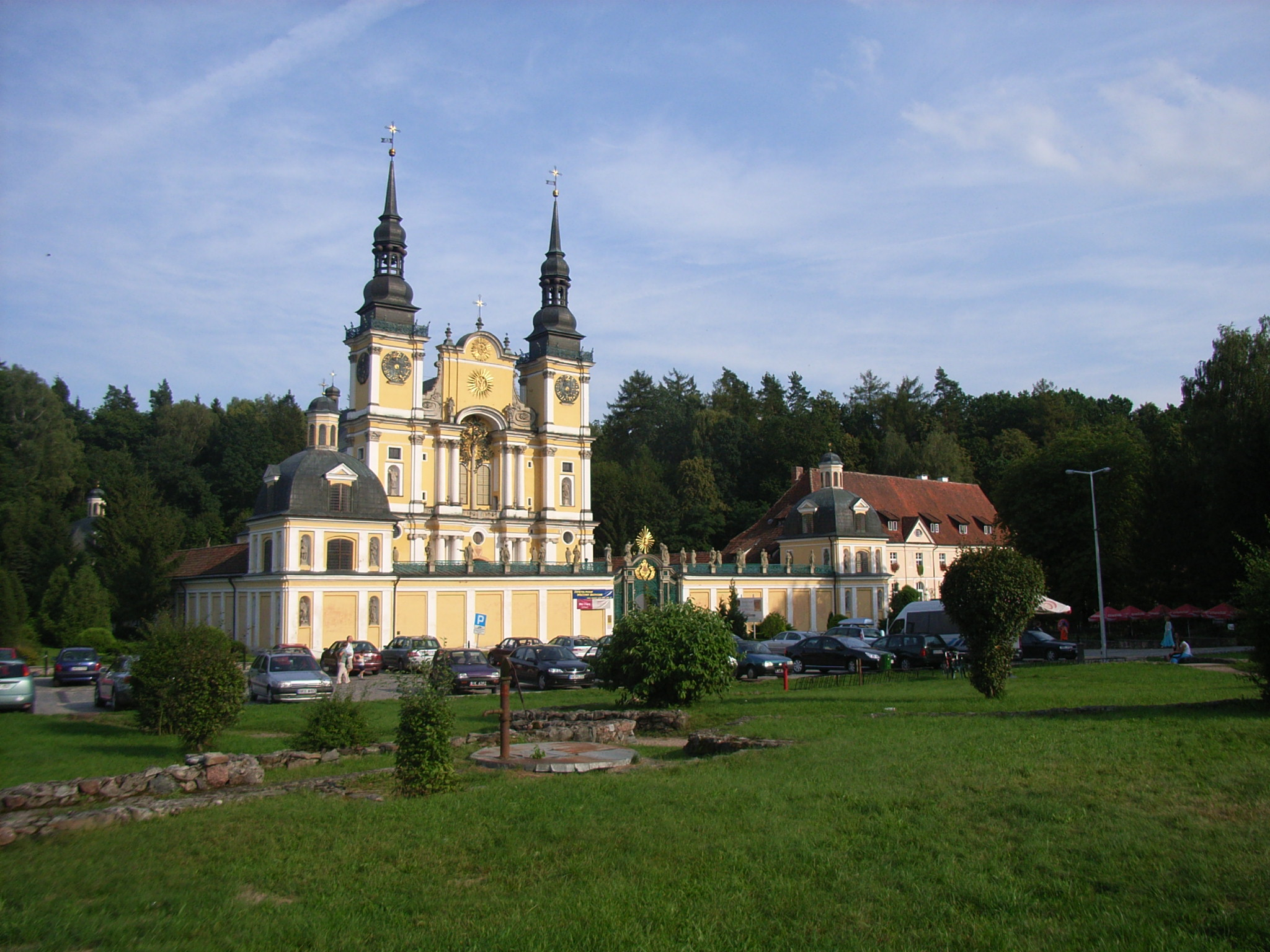 place of pilgrimage "Swieta Lipka" (engl. "holy lime-tree"), Poland